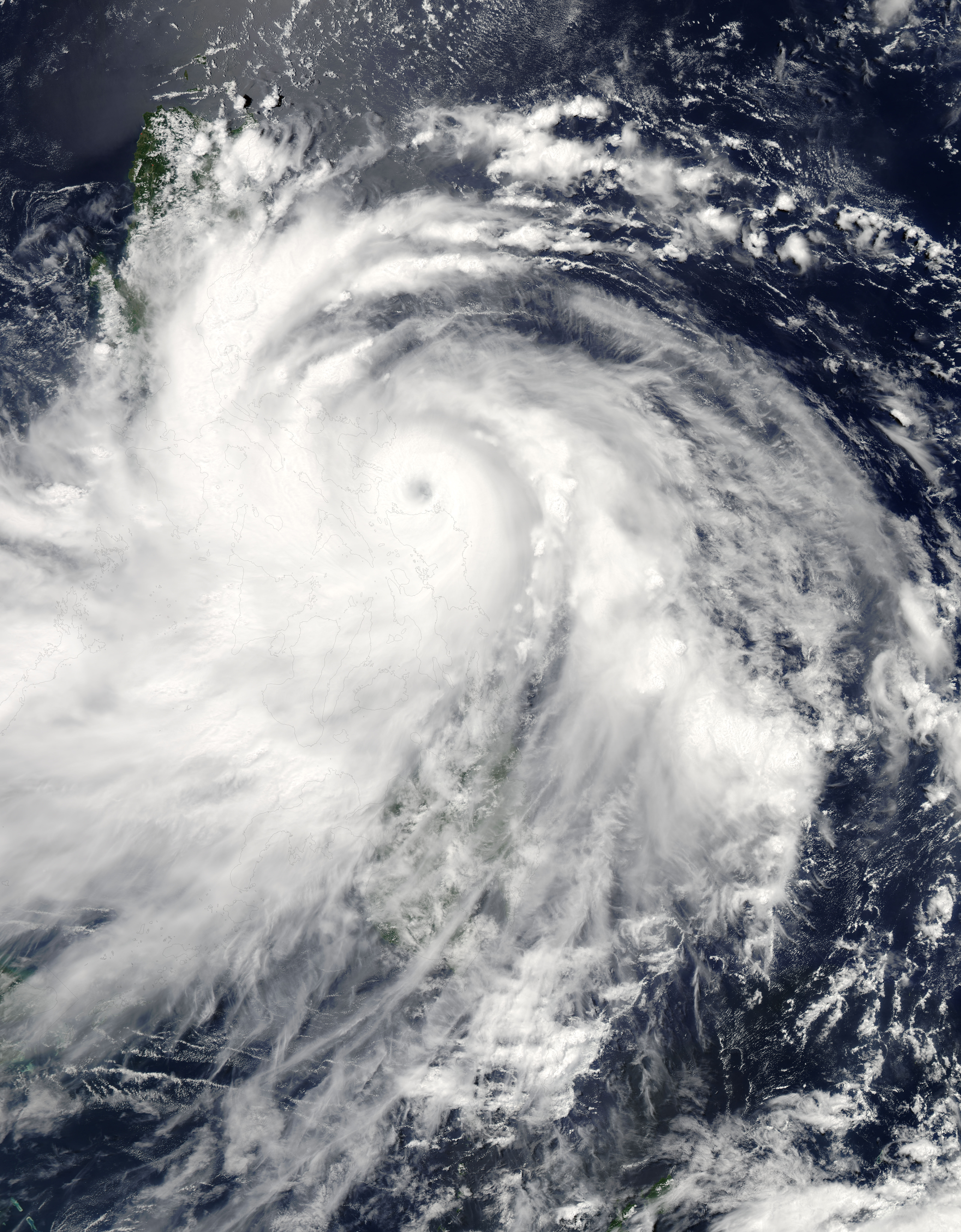 Typhoon Rammasun, known in the Philippines as Glenda is seen here, near peak intensity on July 15 2014, shortly before making it's second landfall.